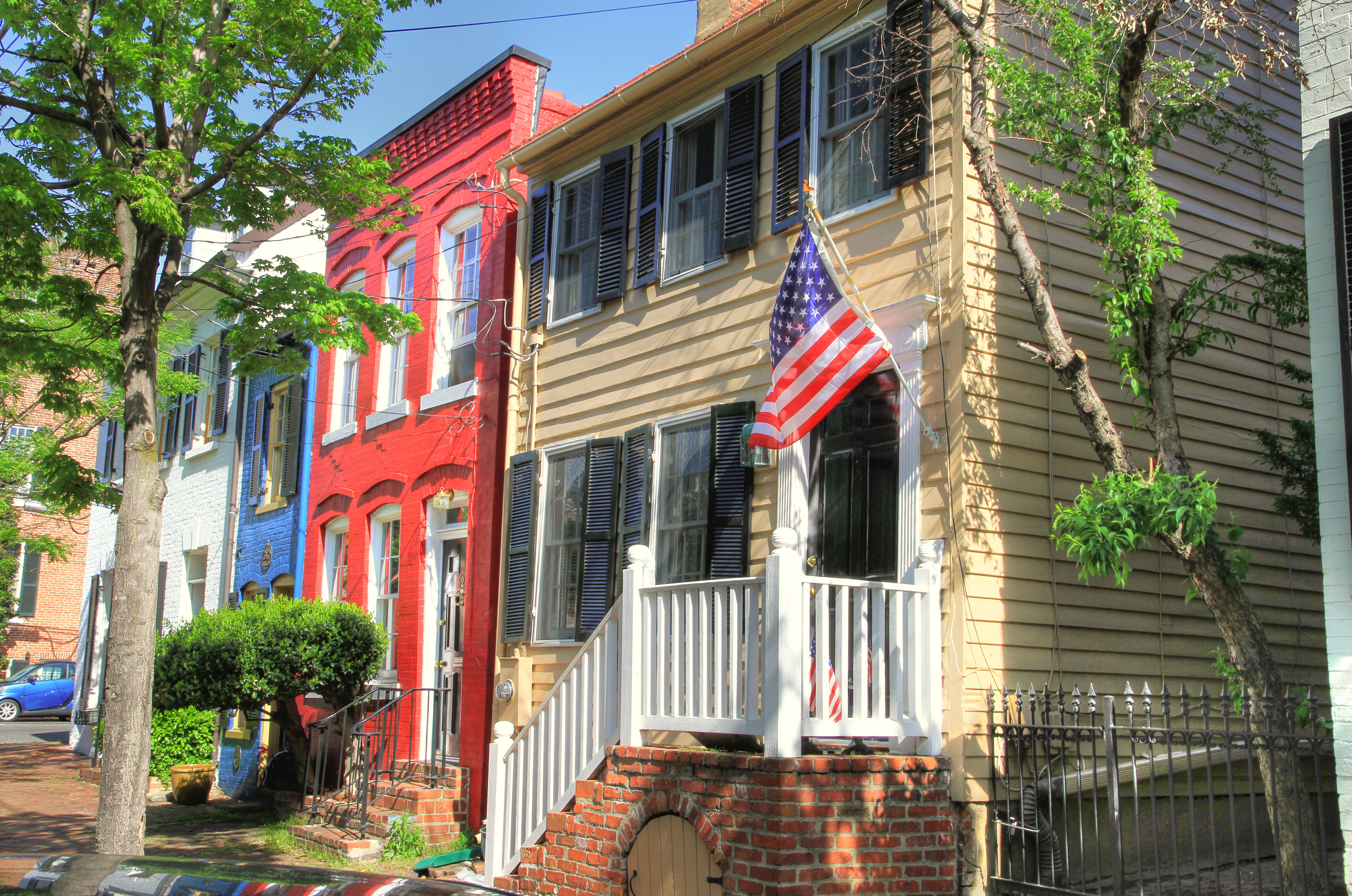 Old Alexandria